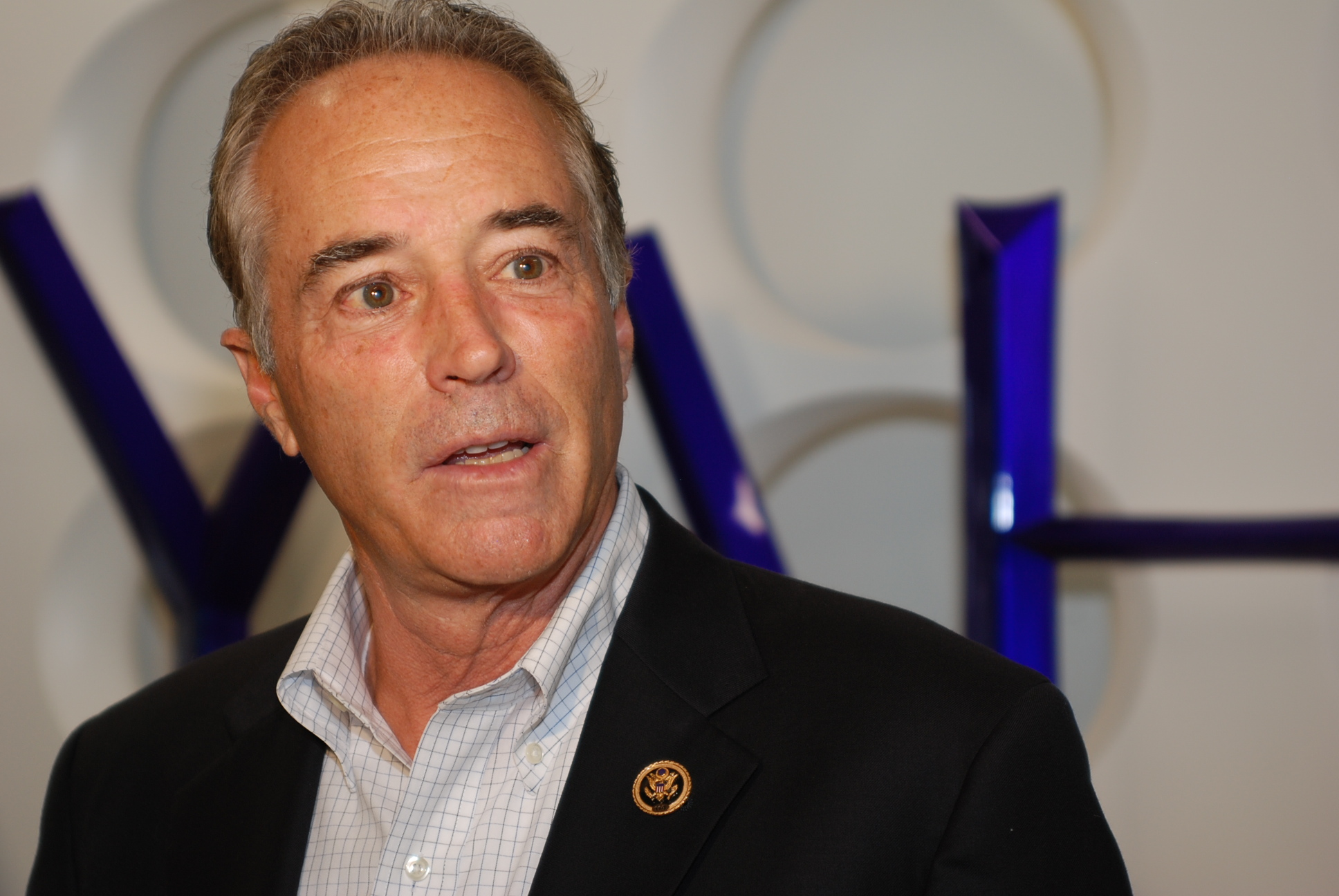 Rep. Chris Collins (NY-27) Visits Yahoo Lockport, NY!